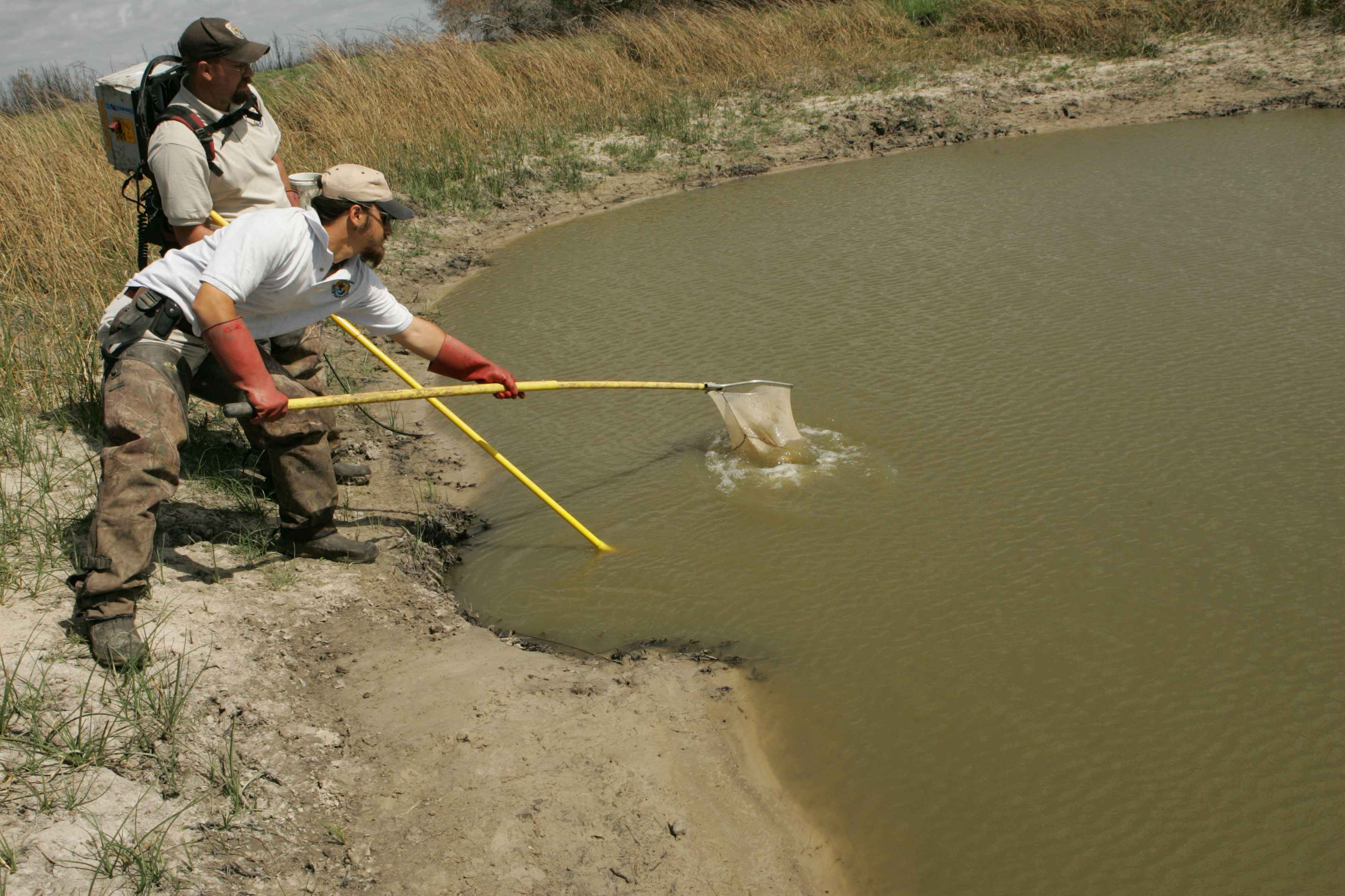 Image title: Catching fish using electrofishing practice Image from Public domain images website